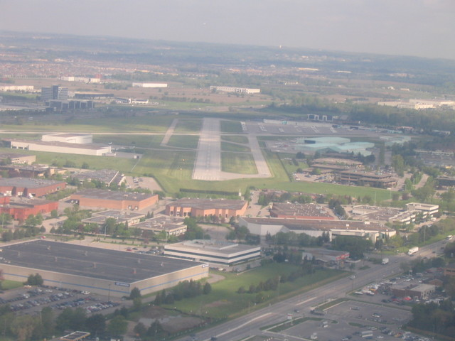 Author: Blake Crosby